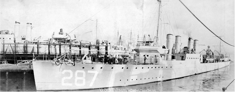 The U.S. Navy destroyer USS Putnam (DD-287) at Boston, Massachusetts (USA), in December 1919. Another destroyer is hauled out of the water on the marine railway in the immediate background.